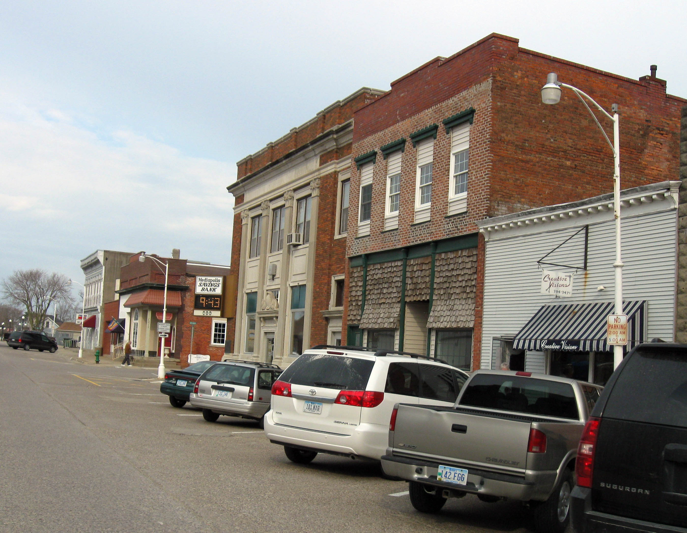 Mediapolis, Iowa. Bill Whittaker (talk) 14:43, 24 March 2009 (UTC)